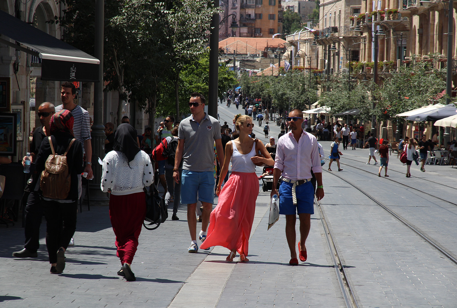 Jerusalem